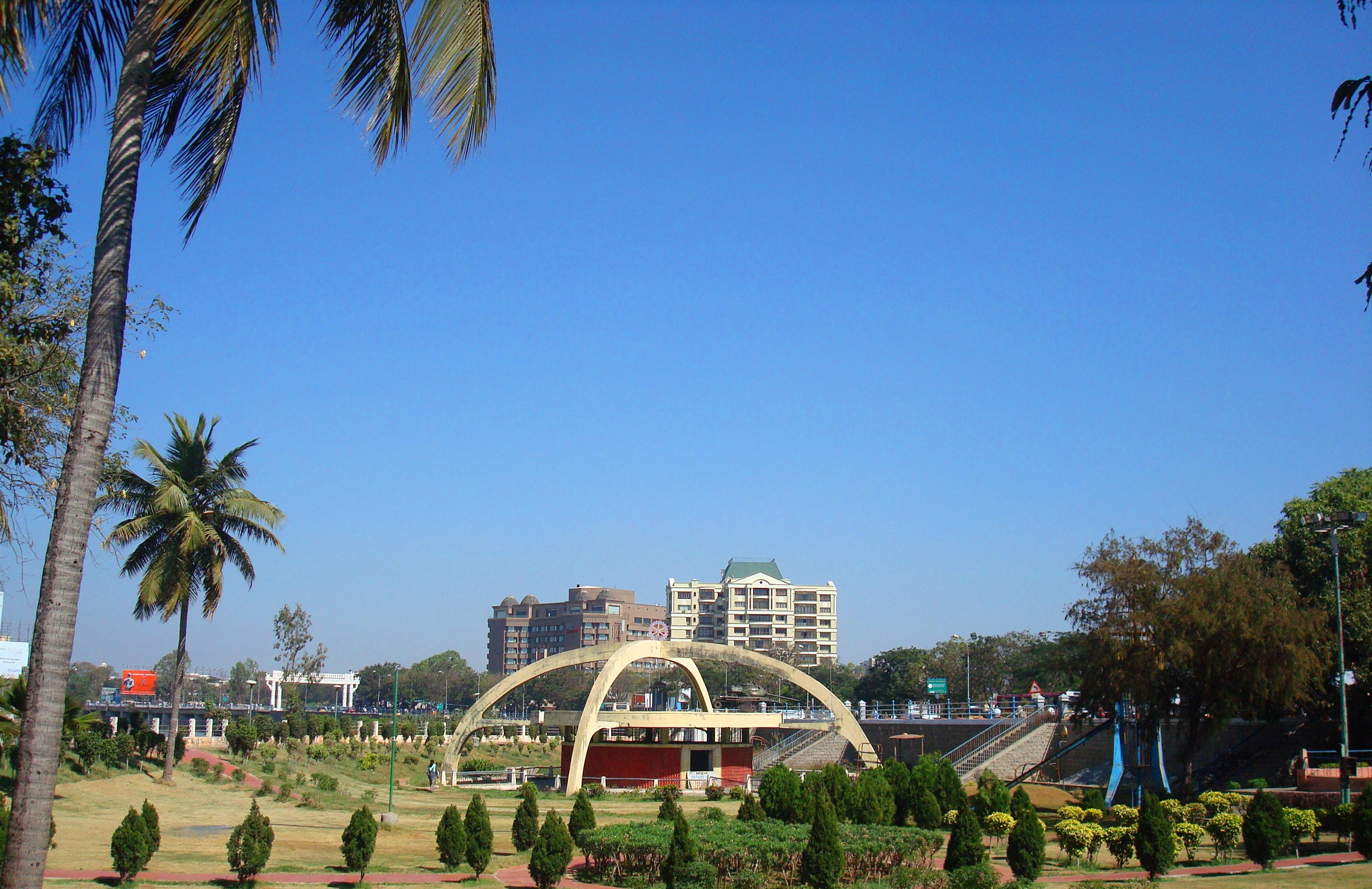 This picture shows the amazing atmoshpere at Rotary club gardens at Tankbund, which lies on the banks of the lake Hussain sagar.